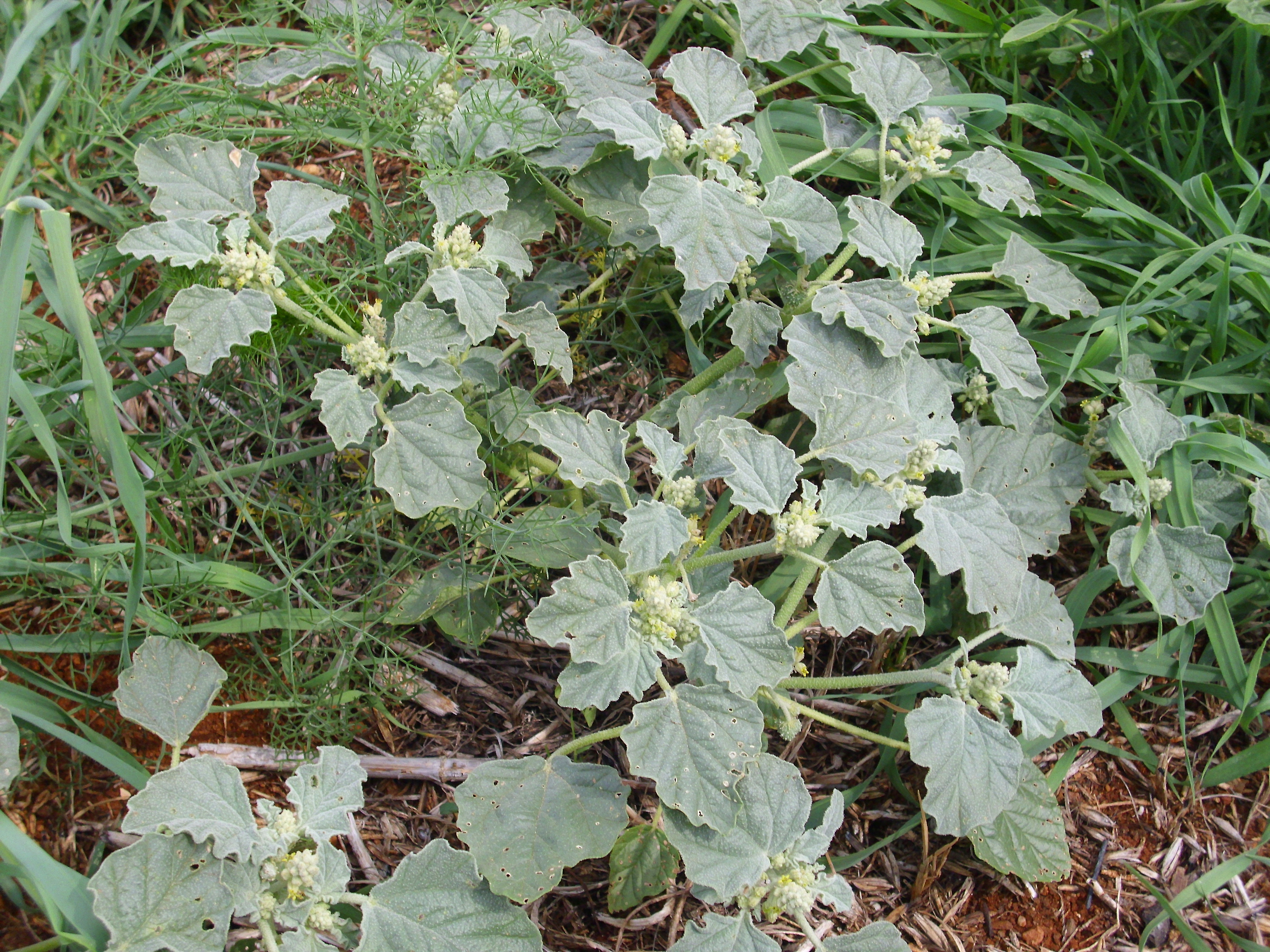 Chrozophora tinctoria habit, Dehesa Boyal de Puertollano, Spain